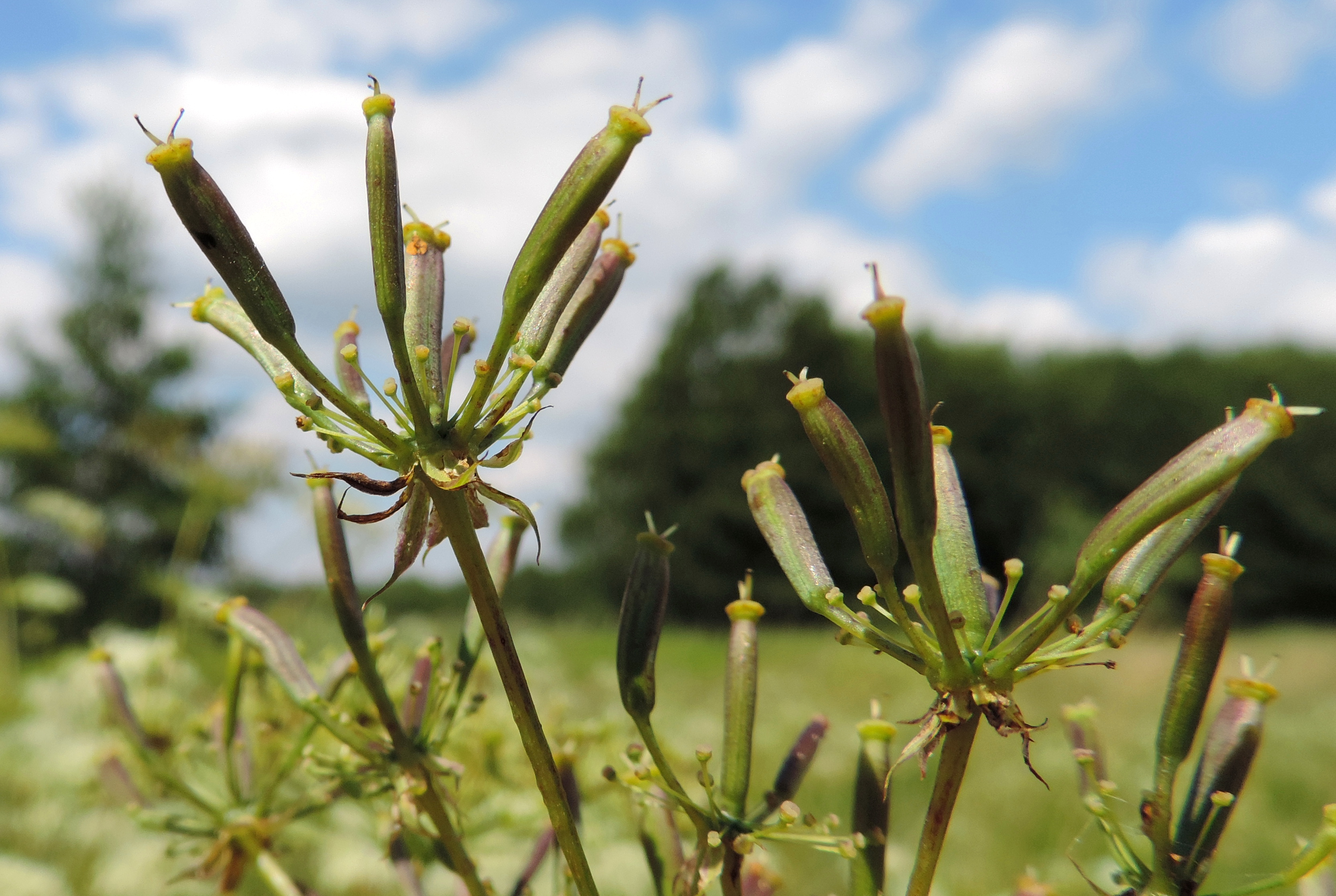 Chaerophyllum aromaticum from vicinity of Wołów (SW Poland)